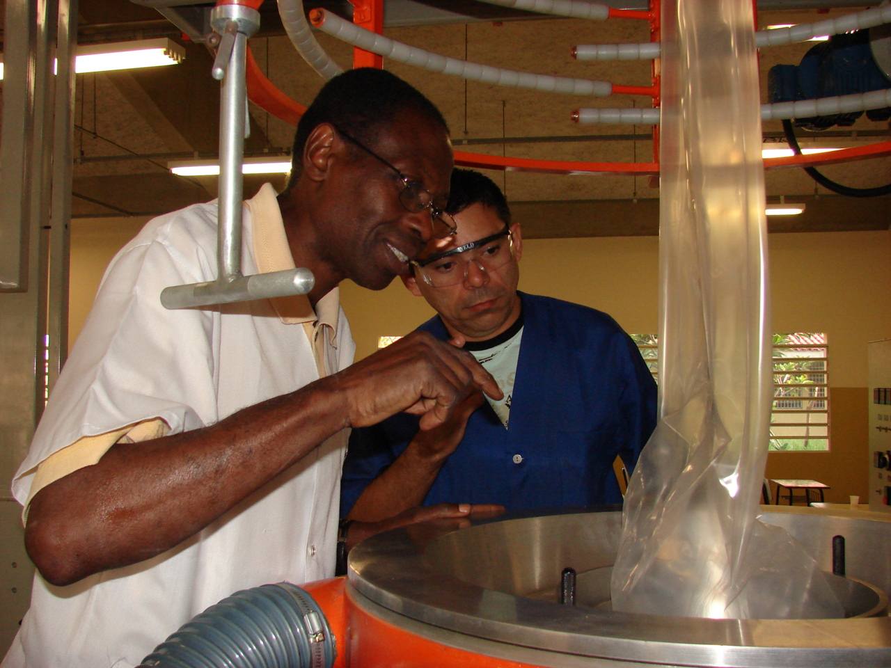 Description - Work Lab